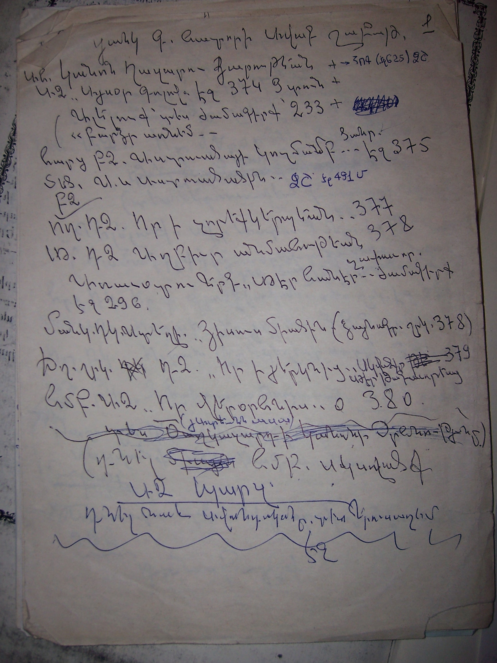 palyan handwriting